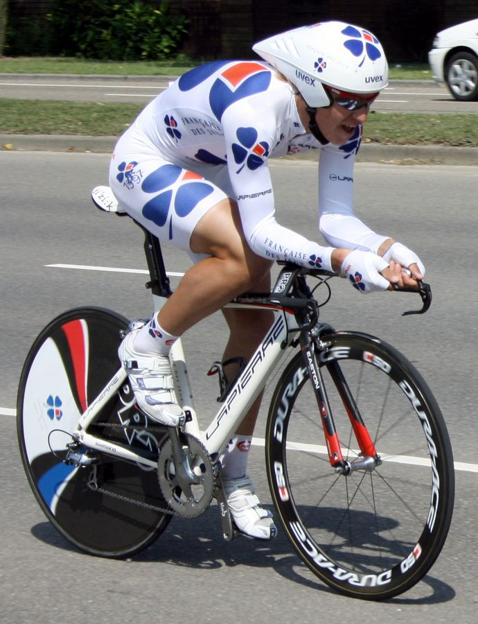 Yauheni Hutarovich at the 2009 Eneco Tour prologue